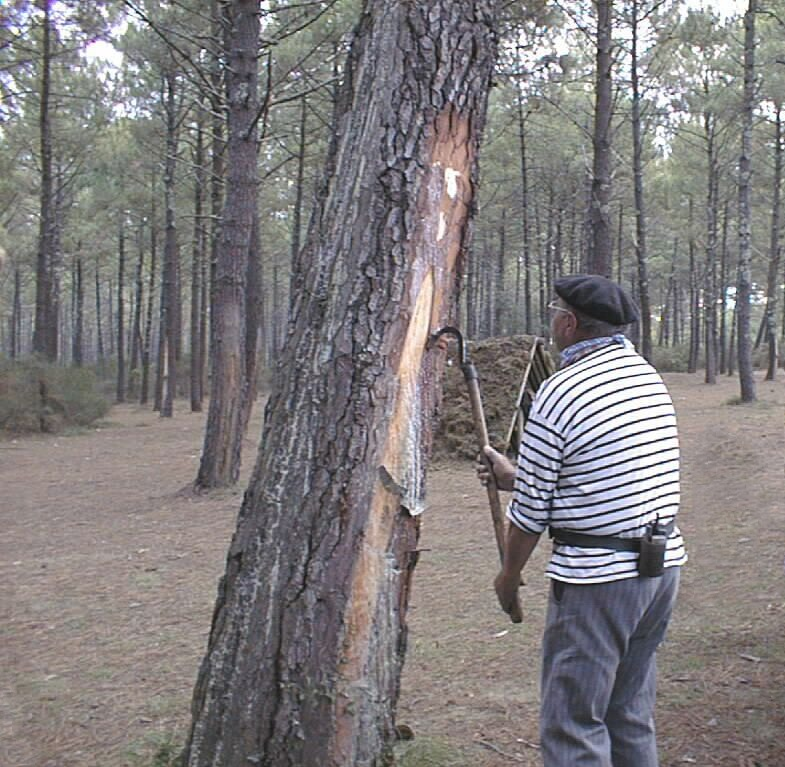 Preparation for resin extraction in Landes département, France.